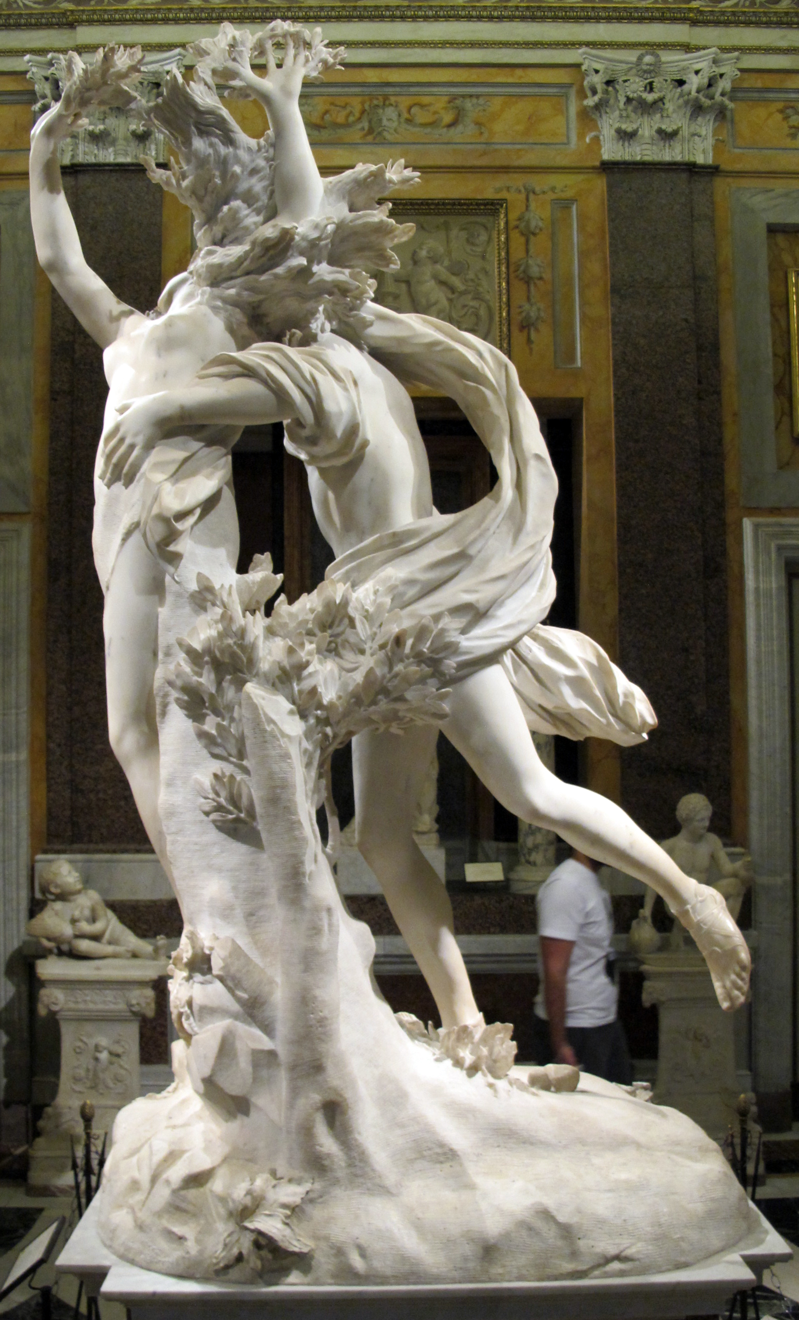 Sculptures in the Galleria Borghese (Rome)